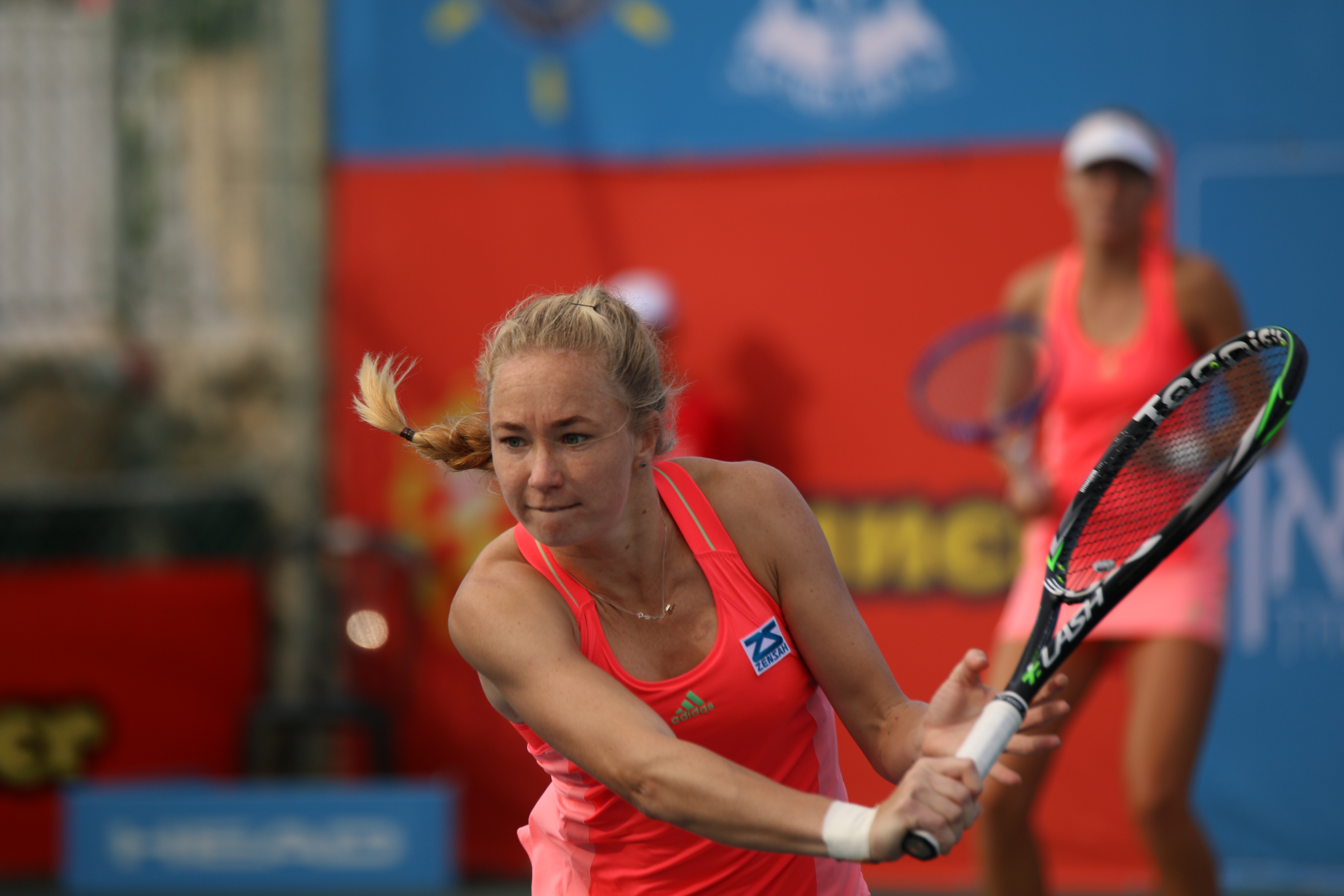 Israel tennis championship 2015